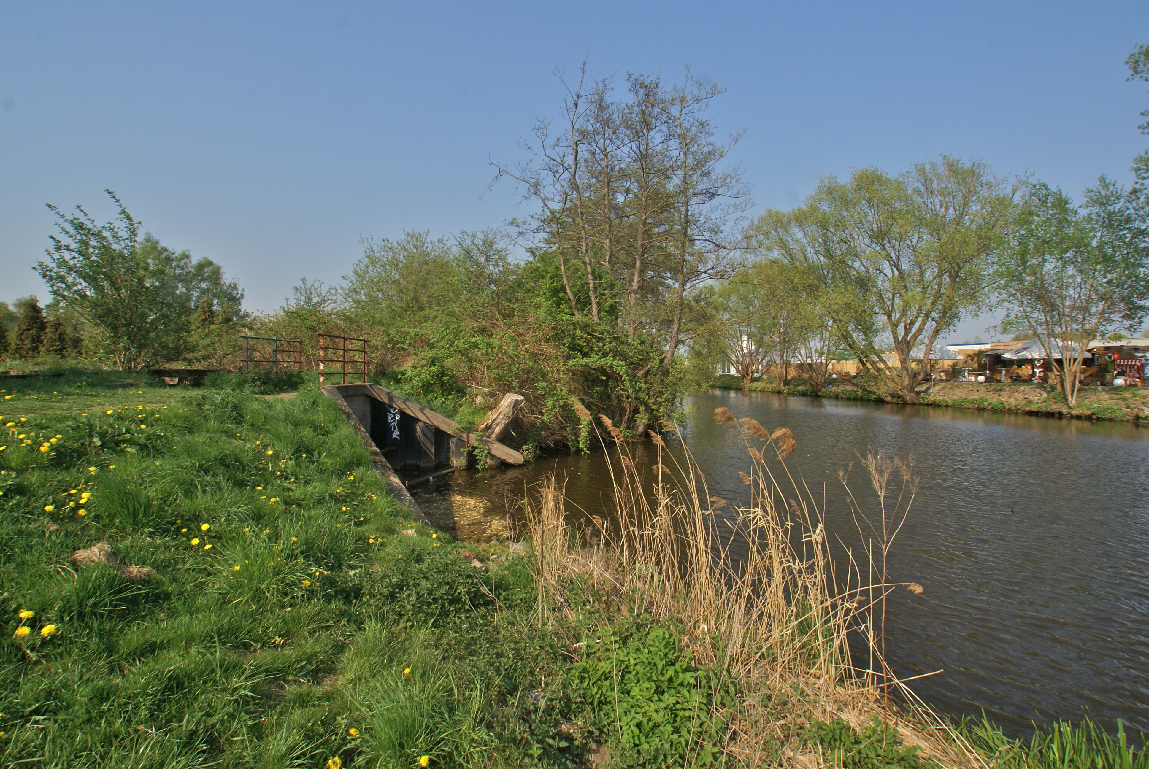 Hamburg (Bergedorf), Germany: The confluence of the Bille and the